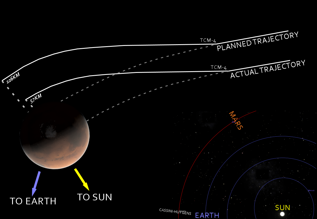 Diagram of the mishap during the Mars Climate Orbiter mission that resulted in the loss of the spacecraft. Derived from 'Figure 4' in the "Mars Climate Orbiter Mishap Investigation Board Phase I Report", page 14, Link.